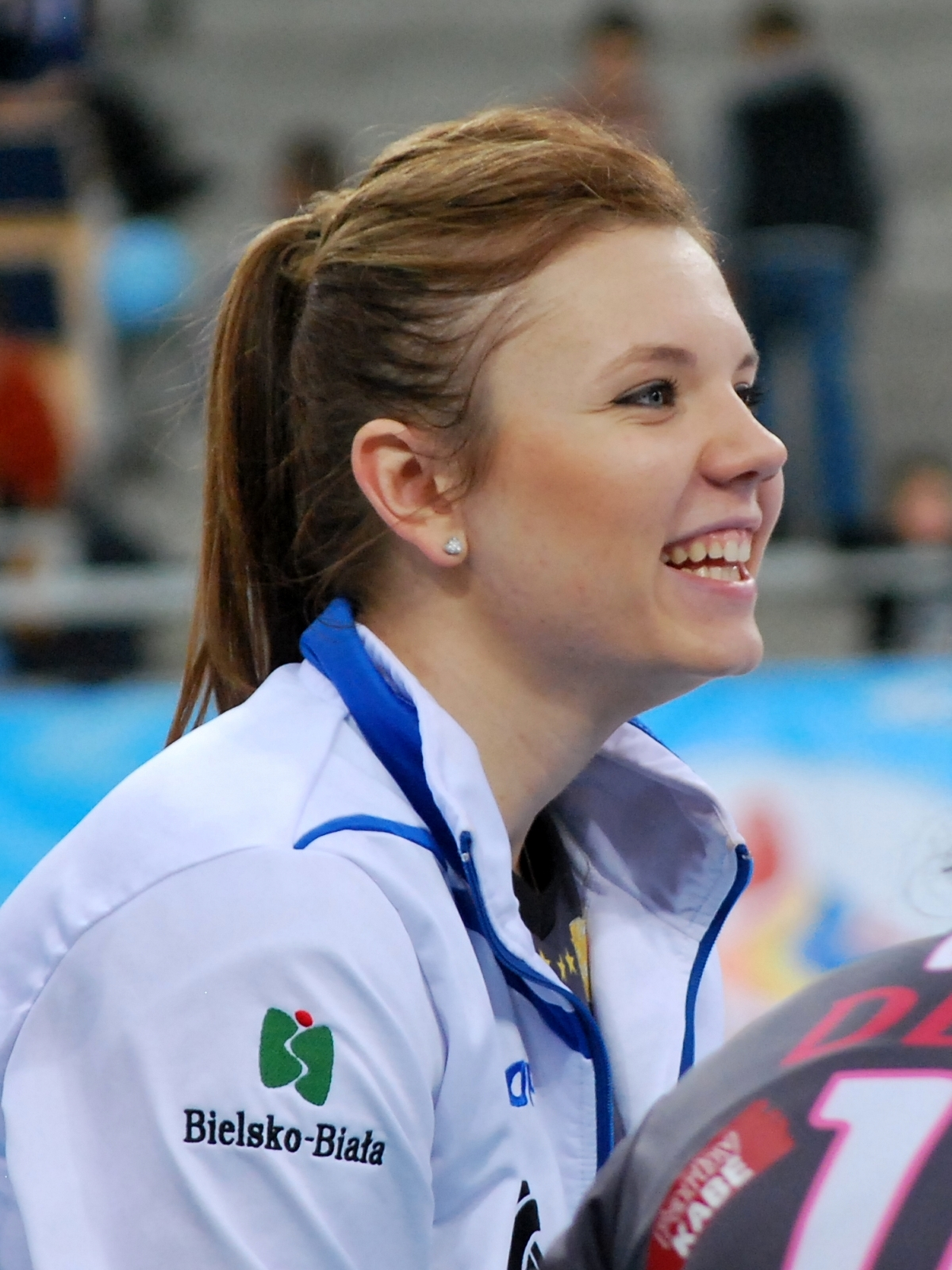 Natalia Strózik, volleyball player from Poland